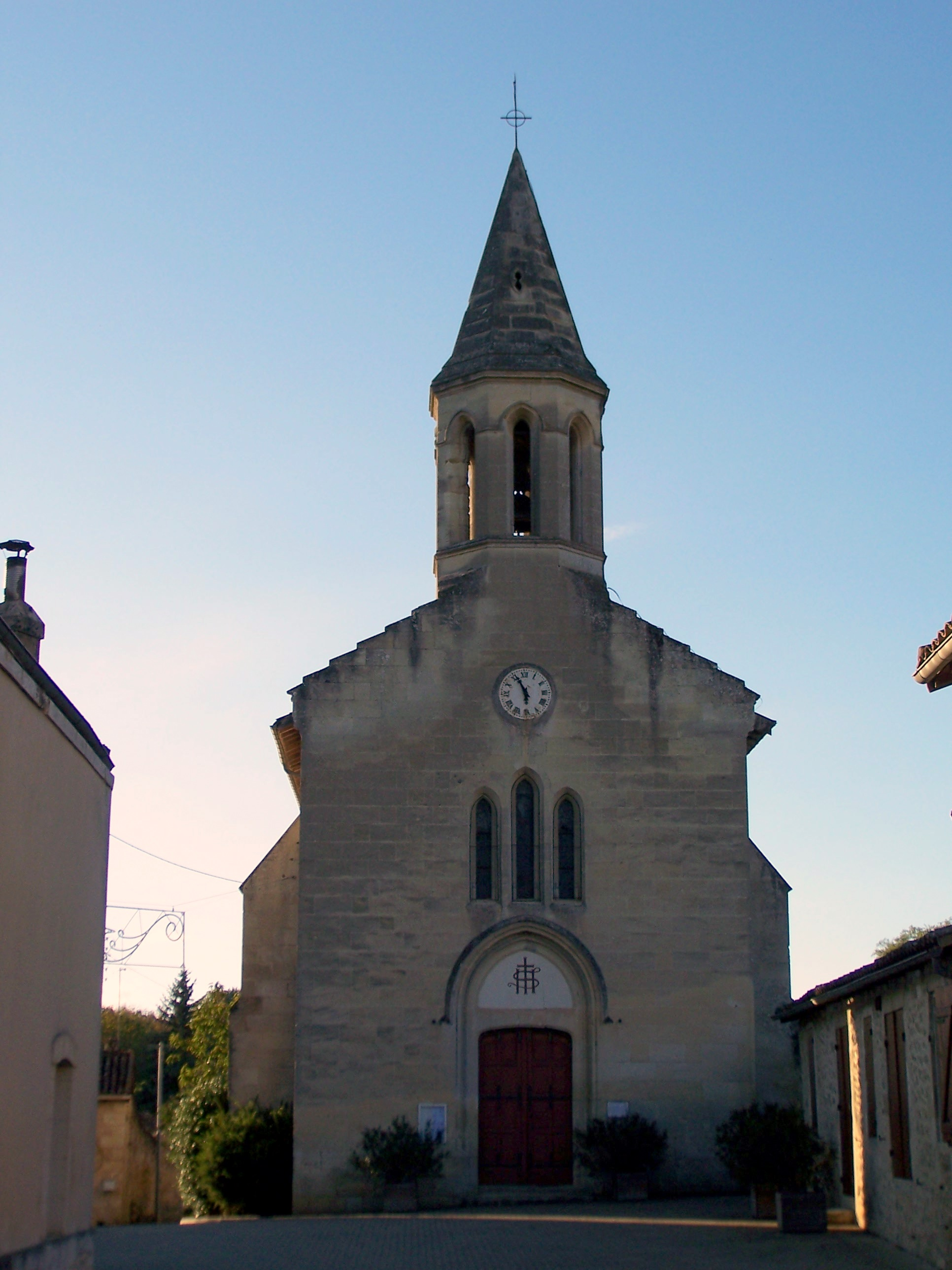 Saint Peter and Saint Paul church of Baigneaux (Gironde, France)